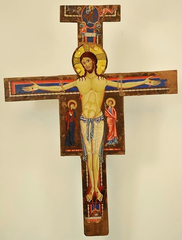 Alberto Sotio, Crucifix, 1187, Duomo, Spoleto.